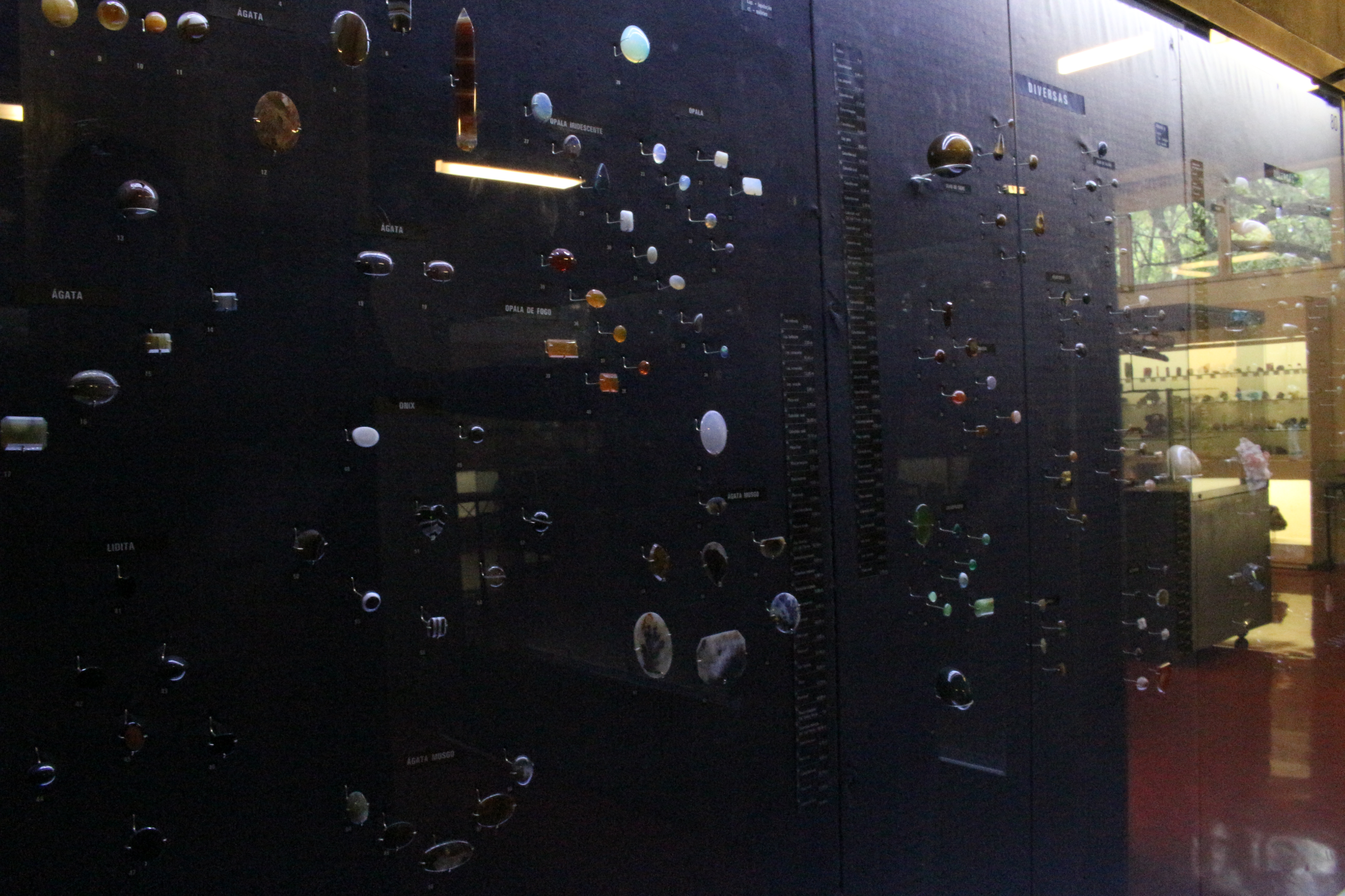 Rare stones - Museum of Geosciences of the Institute of Geosciences of USPv